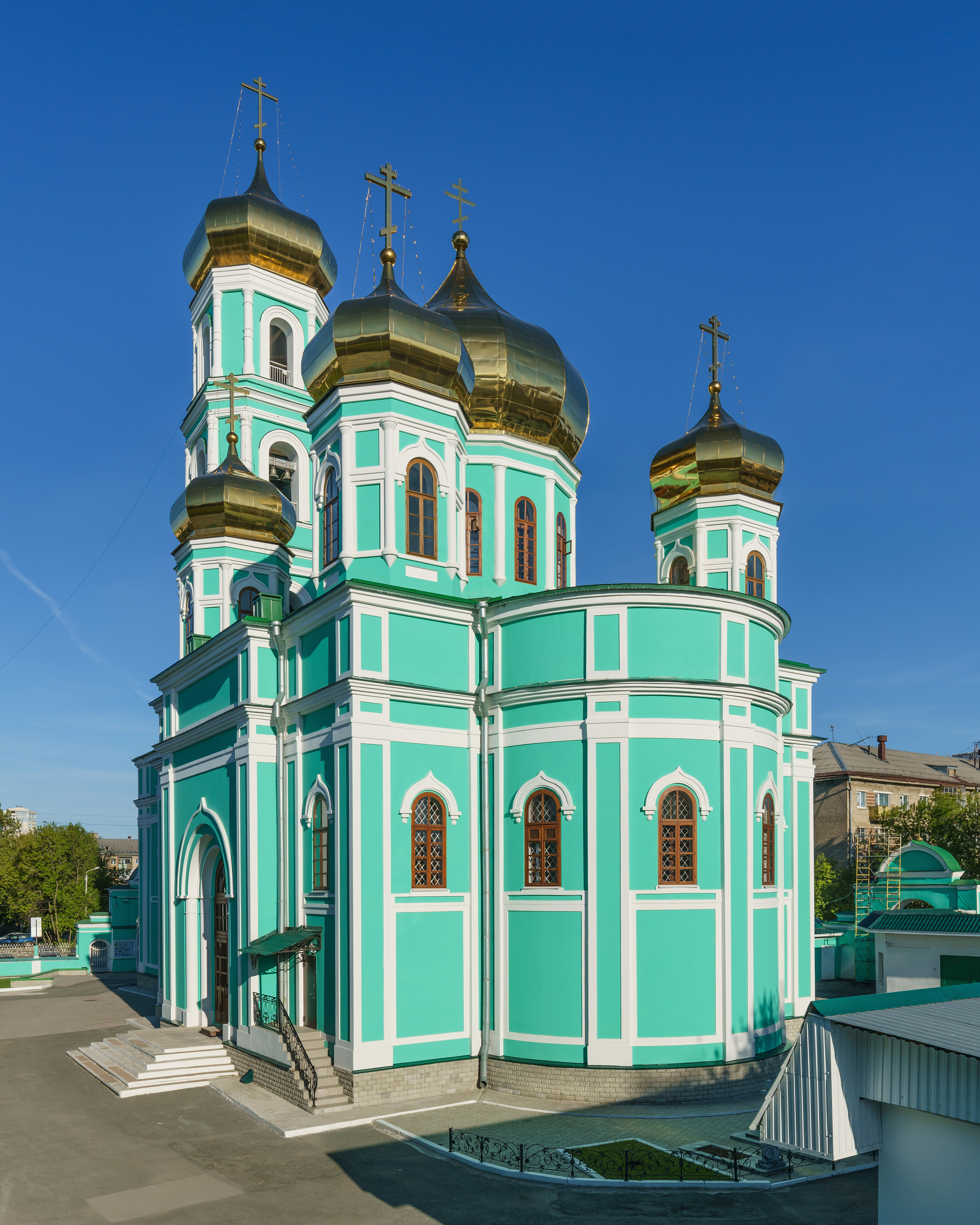 Trinity Cathedral in Perm, Russia